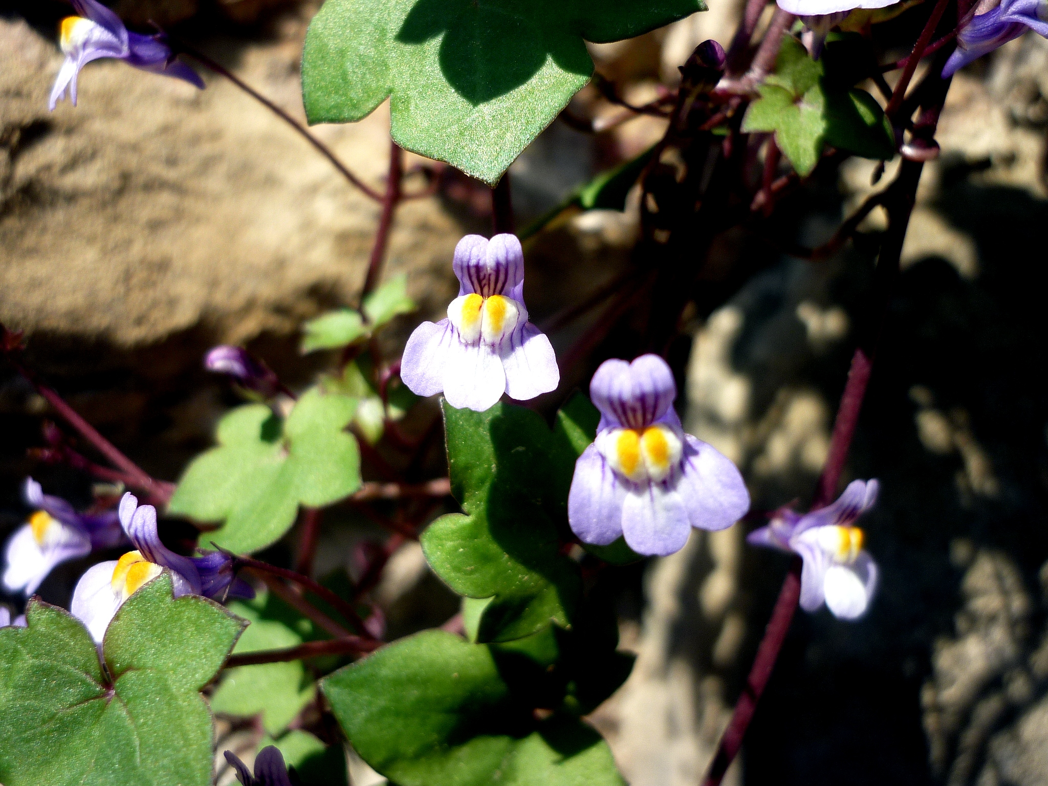 Cymbalaria muralis. In Torà (Segarra-Catalunya). To 590 m. altitude